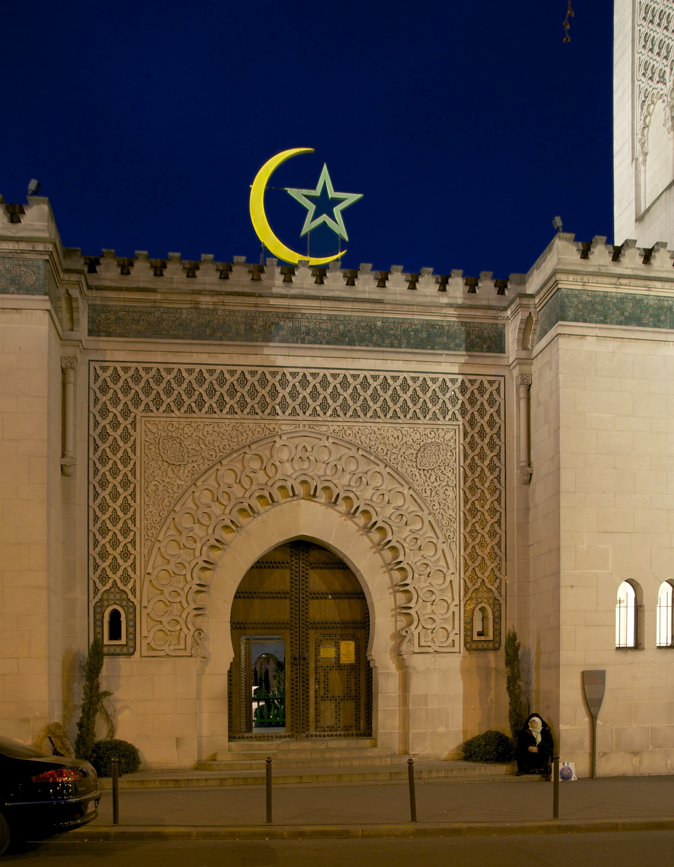 The mosque of Paris, main entrance, at night (blue hour)